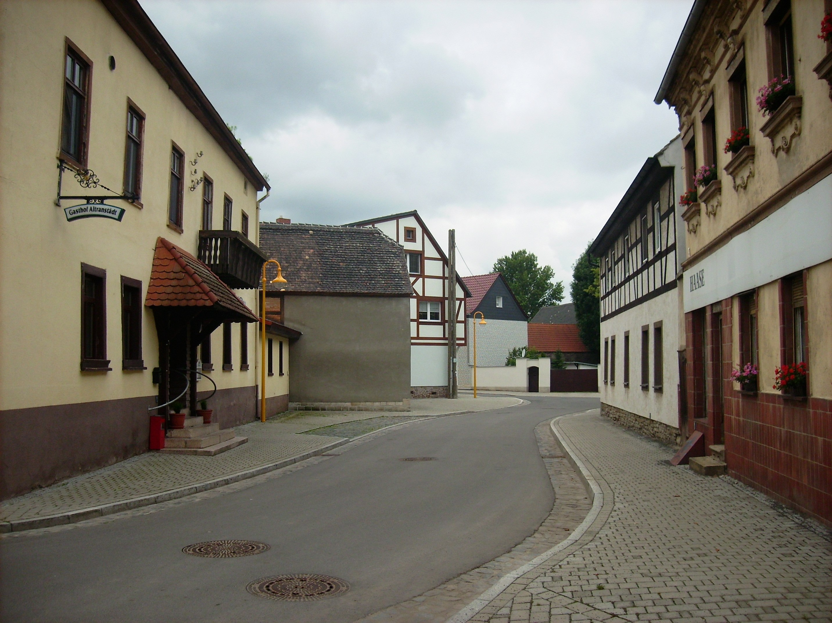 Schwedenstrasse at the Altranstädt Inn (Markranstädt, Leipzig district, Saxony)